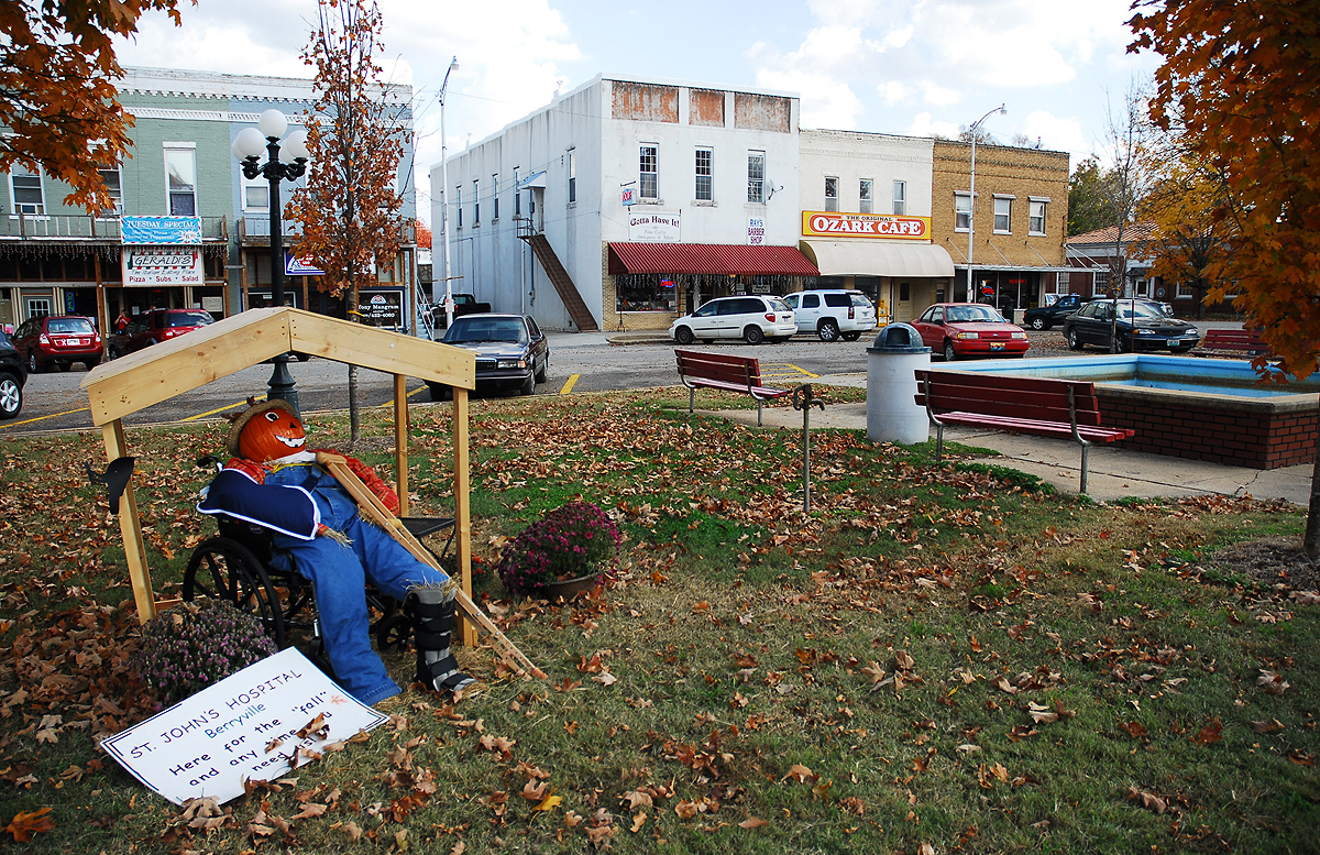 Town square in Berryville, Arkansas, USA